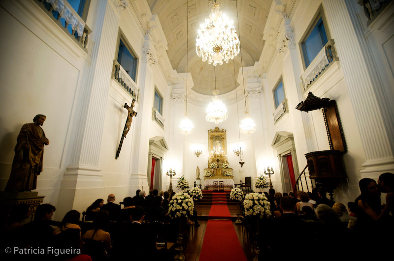 Capela de São Pedro de Alcântara da UFRJ